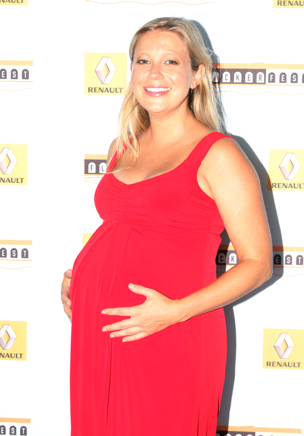 Flickerfest Short Film Festival opens at Bondi Pavilion, Bondi Beach, Sydney, Australia - 11th January 2013.